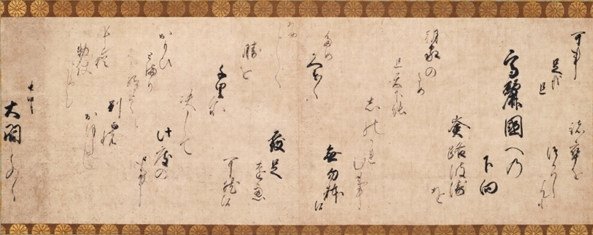 Hanging scroll, Ink on paper, Important Cultural Properties of Japan. This letter which Emperor Go-Yōzei wrote to Toyotomi Hideyoshi remonstrates for dispatching his own troops to Korea.